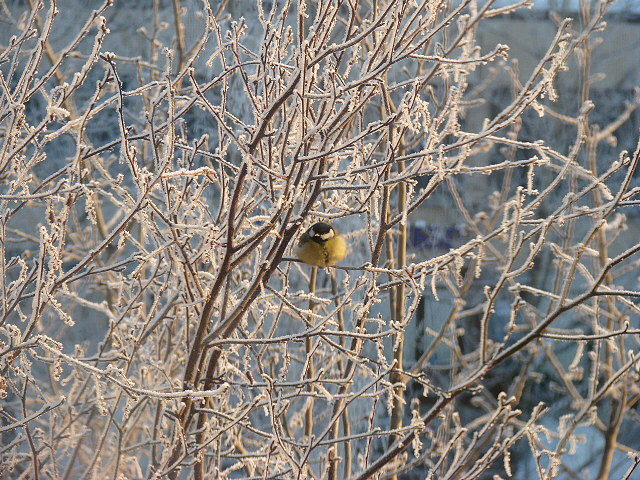 Great Tit